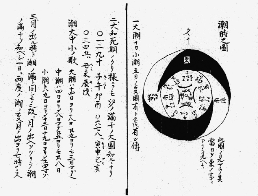 A page from the Bansenshukai, a ninjutsu manual written in 1675 Volume 8. This diagram uses cosmology and divination practices to determine a good time to take certain actions.